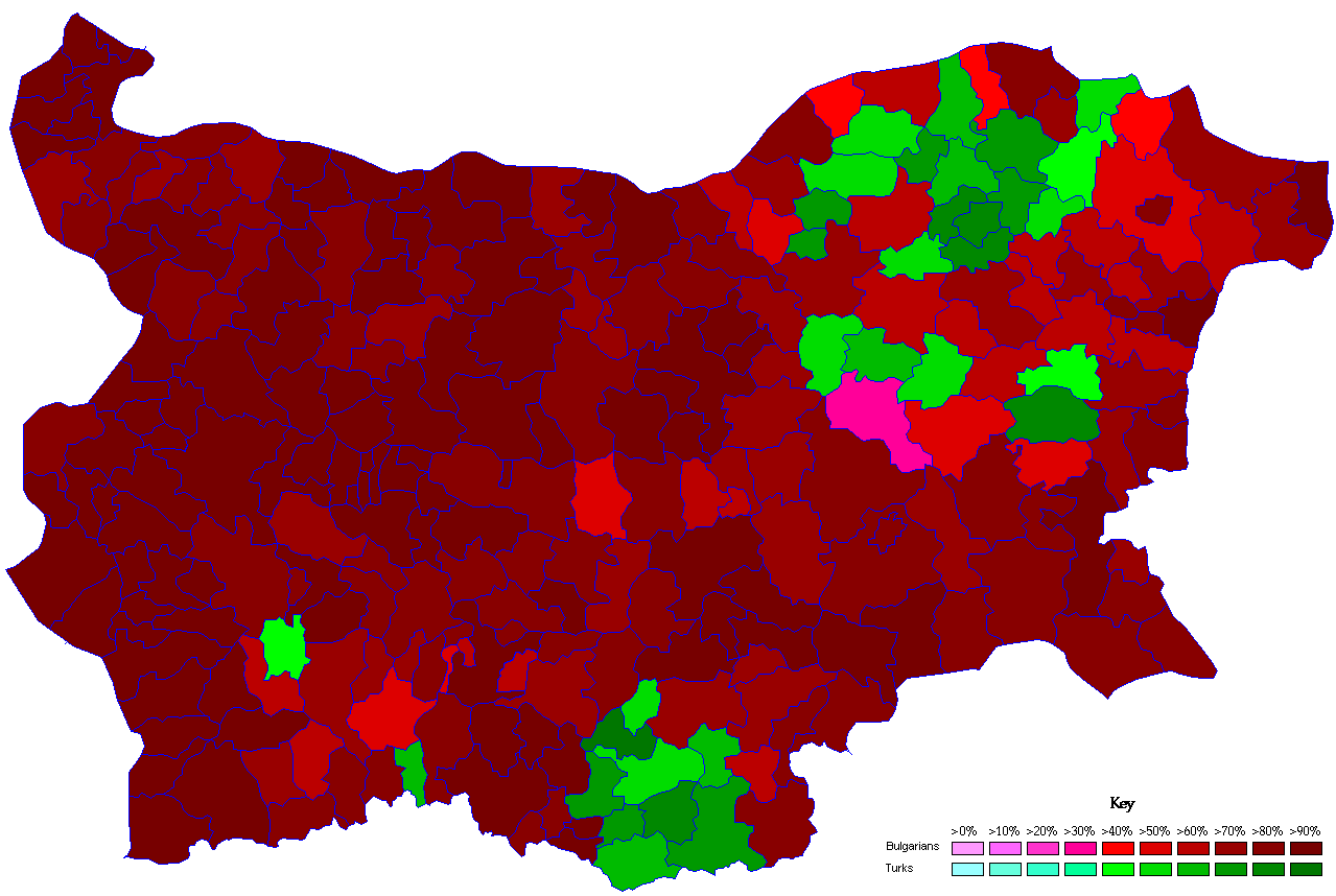 The ethnic composition of Bulgaria by municipality, according to the optional question on ethnicity in the 2011 census